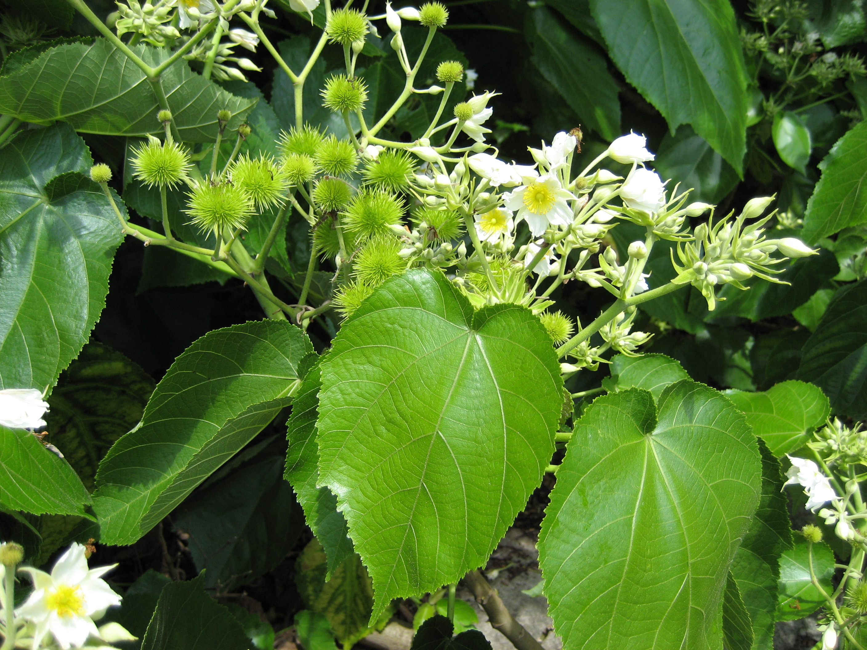 Whau (Entelea arborescens), detail of leaves and flowers, Auckland, New Zealand.